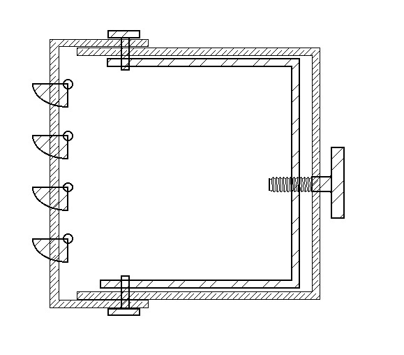 The machine is about an inch and a half cube